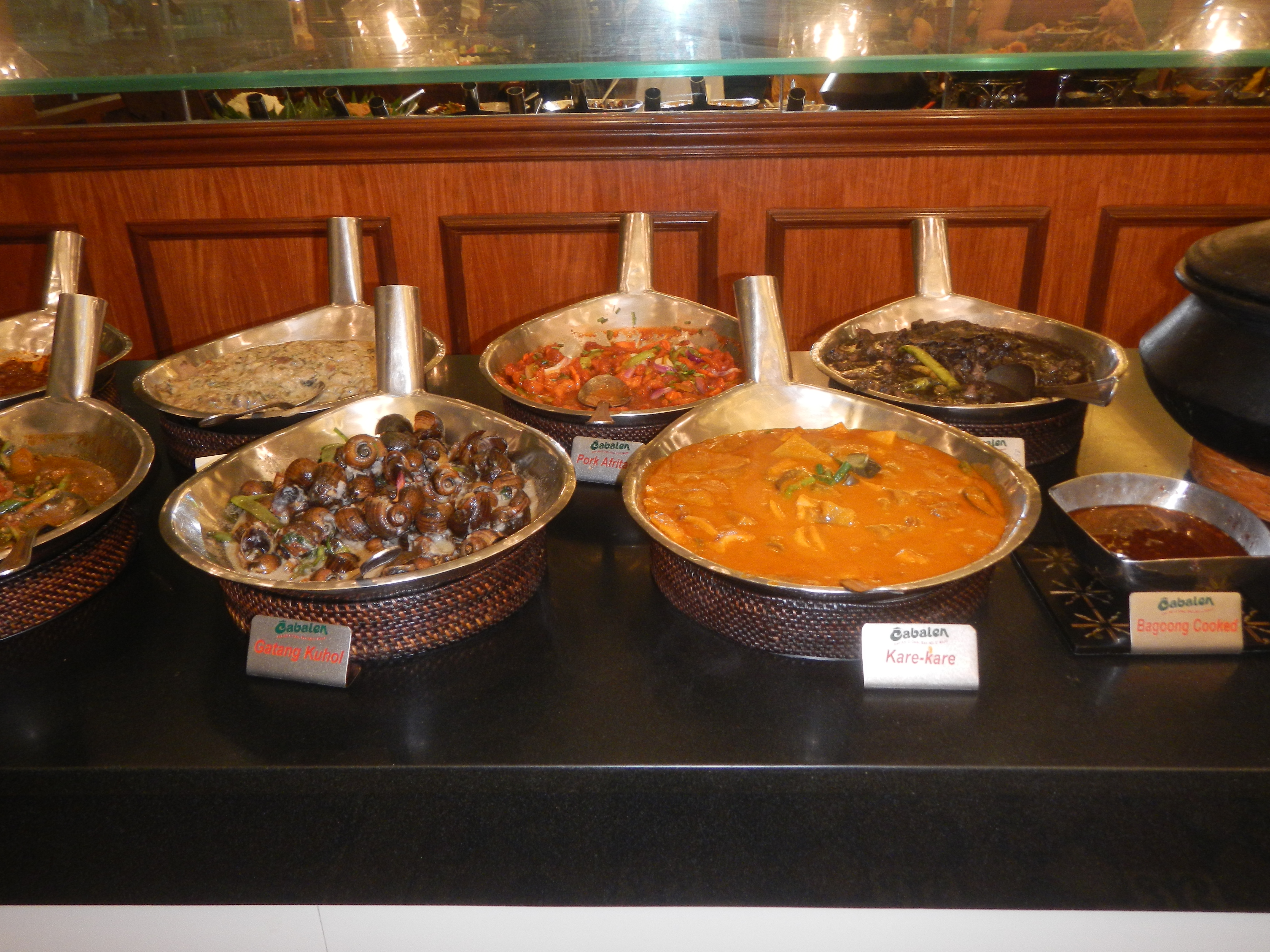 Cabalen List of Philippine restaurant chains Cabalen food products in the Philippines in SM City Baliuag Barangay Pagala 14°58'14"N 120°53'26"E Baliuag, Bulacan, Bulacan province (accessed from Cagayan Valley Road, Baliuag-Pulilan-Guiguinto, Bulacan) Pan-Philippine Highway, also known as the Maharlika "Nobility/freeman" Highway or Asian Highway 26, Cagayan Valley Road (Note: Judge Florentino Floro, the owner, to repeat, Donor Florentino Floro of all these photos hereby donate gratuitously, freely and unconditionally all these photos to and for Wikimedia Commons, exclusively, for public use of the public domain, and again without any condition whatsoever).